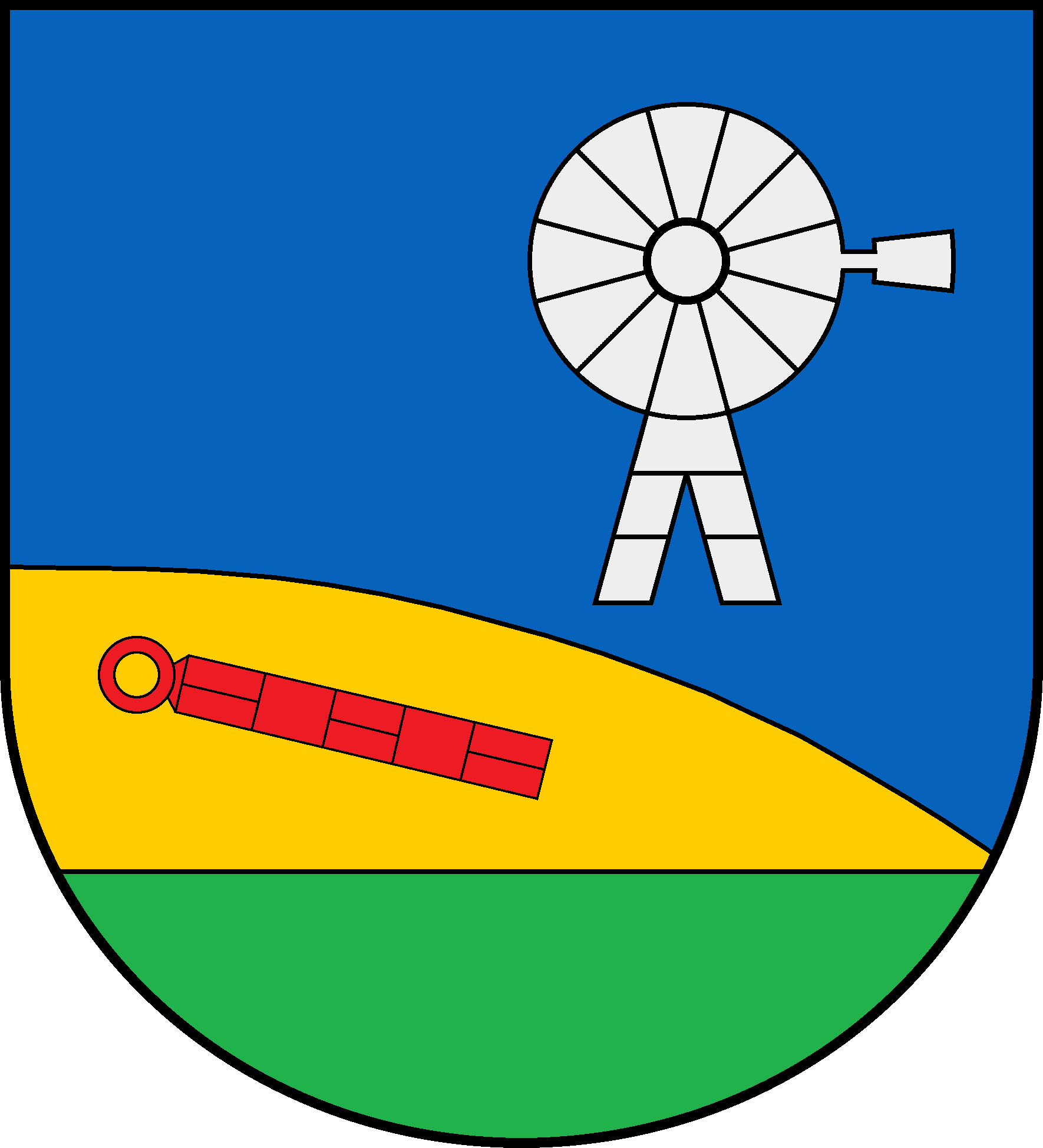 Coat of arms of the municipality Högel in Schleswig-Holstein, Germany.